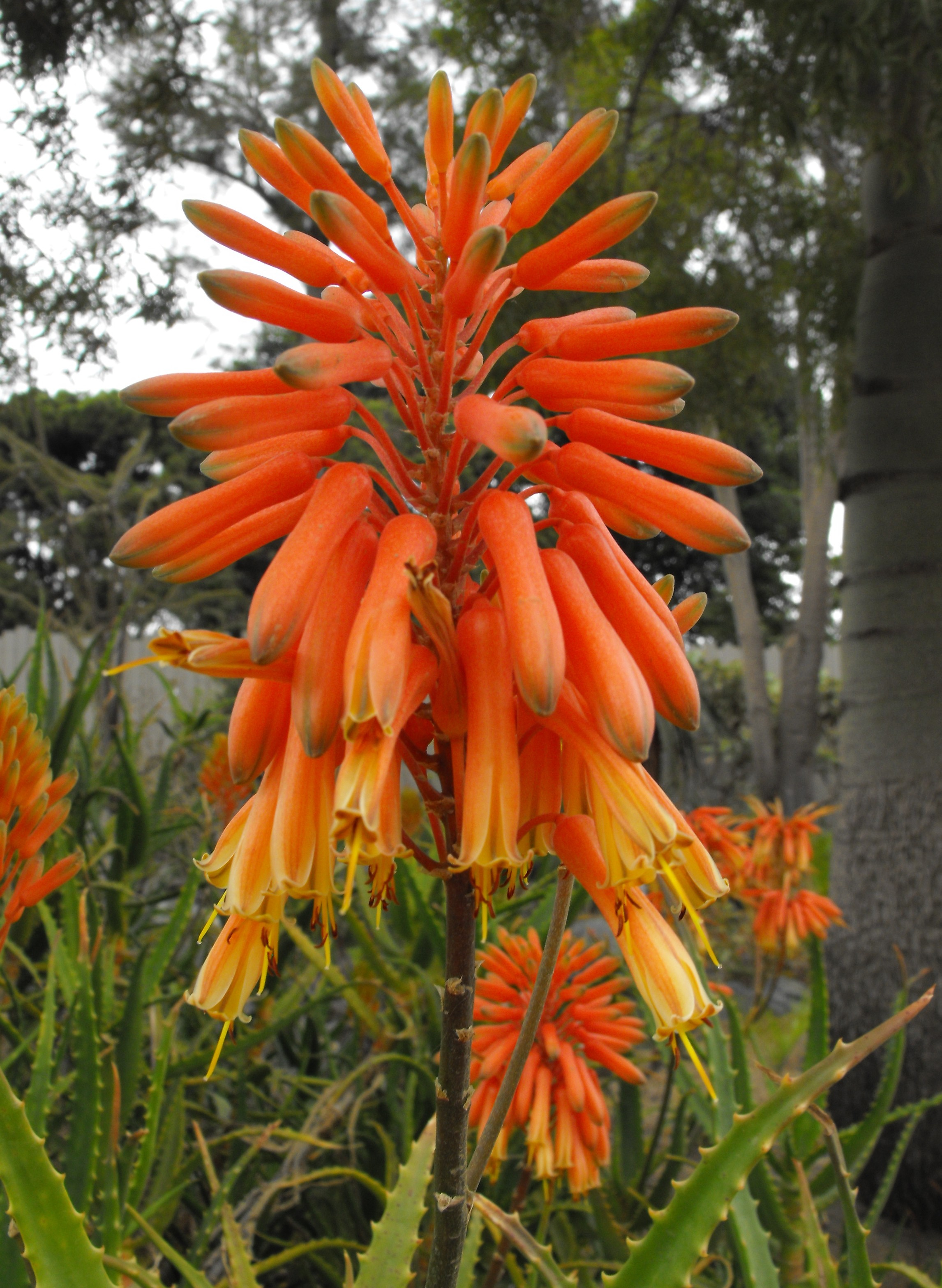 Aloe kedongensis at the San Diego Zoo, California, USA. Identified by sign.